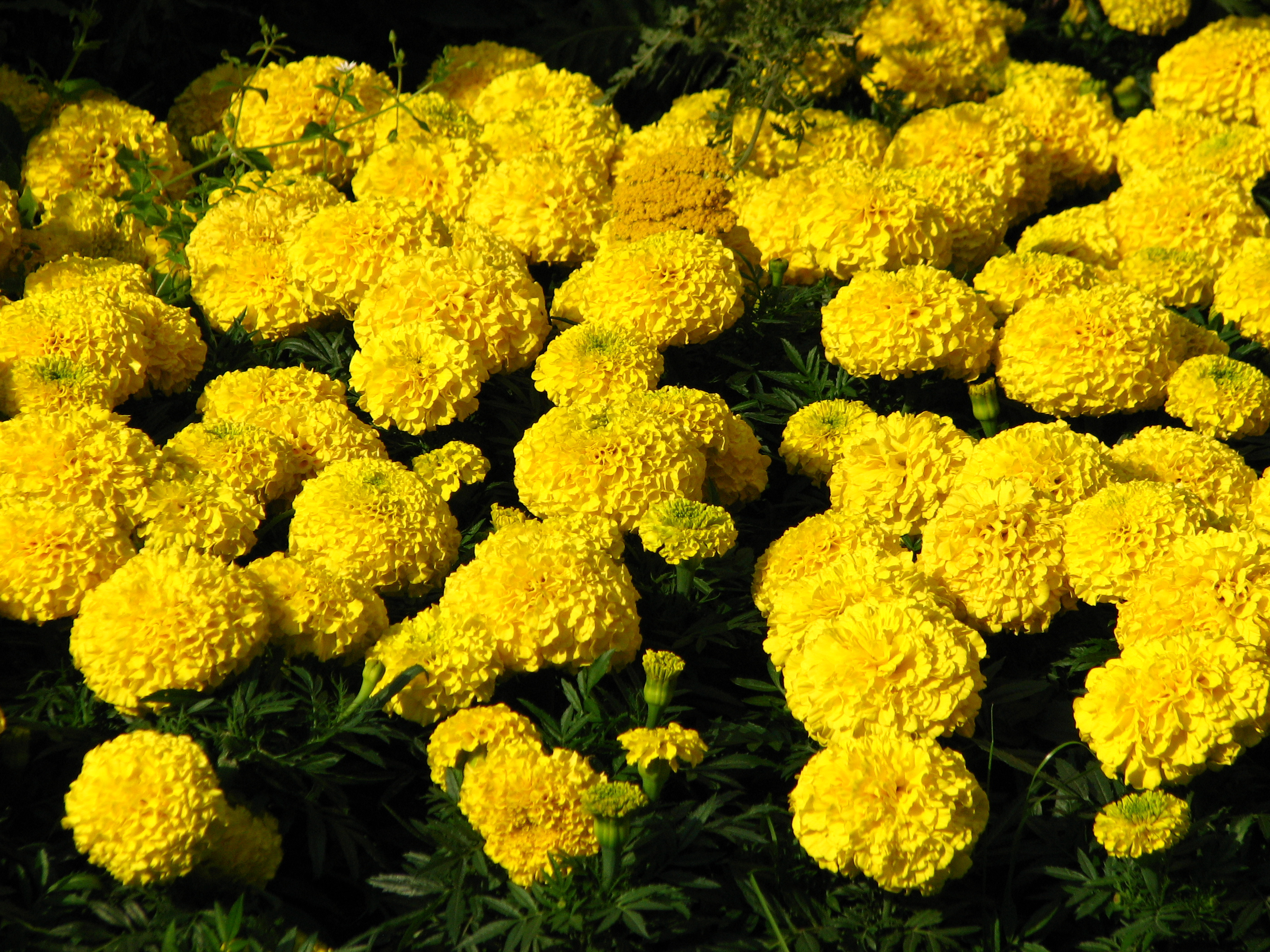 Flower beds in park Kolomenskoye (Moscow).